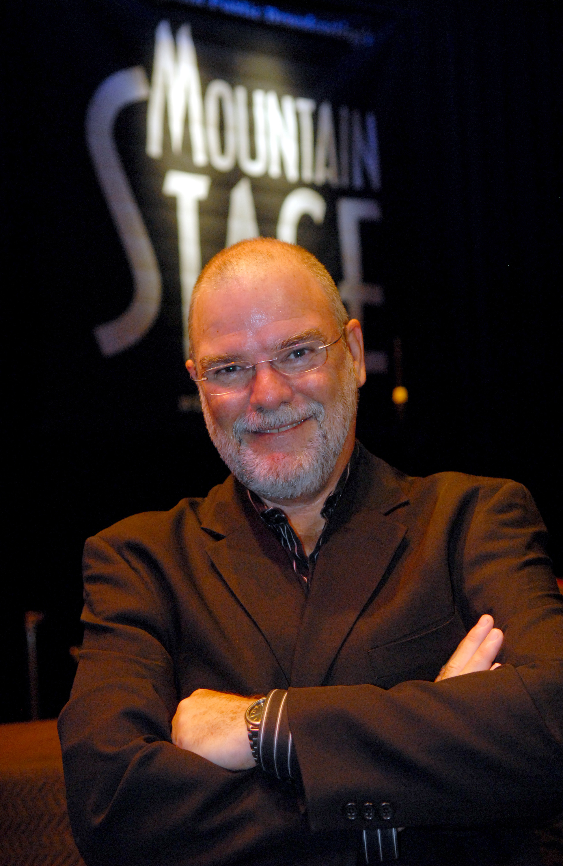 Larry Groce, American singer, songwriter, musician and radio host.